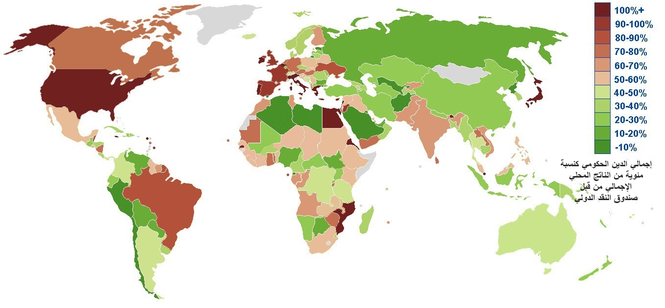 Government gross debt as % of GDP, data by IMF.